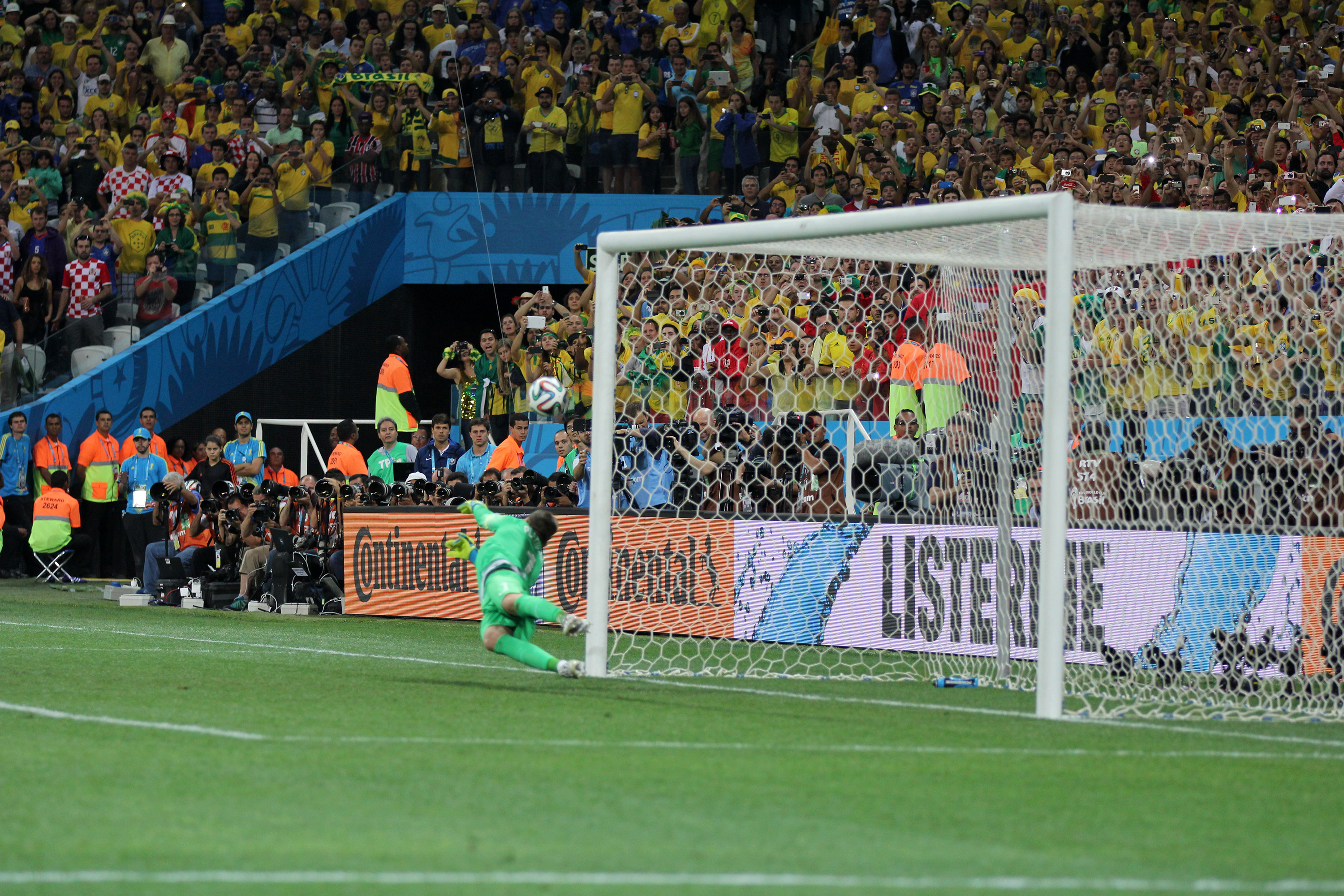 Brazil and Croatia match at the FIFA World Cup 2014-06-12